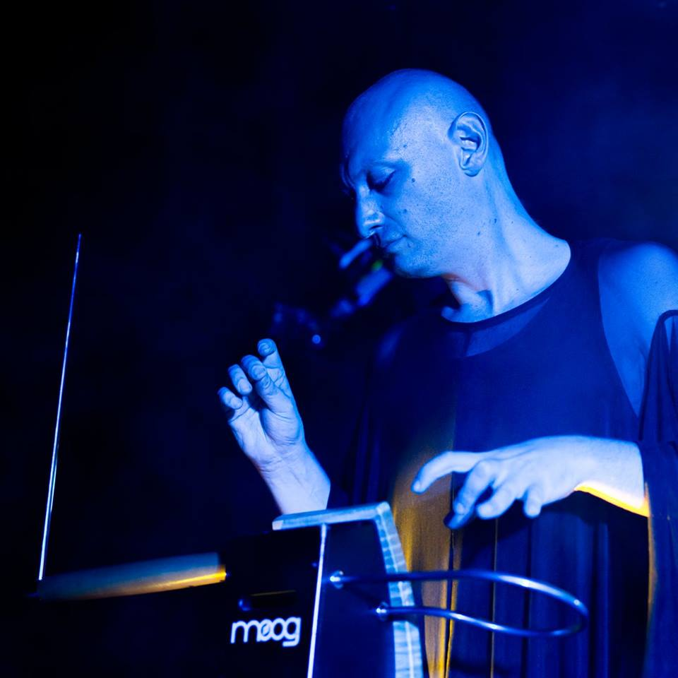 Miles Brown performing at the launch for his Seance Fiction album at The Curtin, Melbourne in 2016. Photo by Neil Marshall